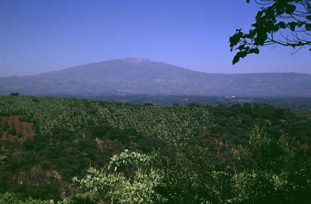 Cofre de Perote, a massive Quaternary andesitic-dacitic shield volcano in Mexico.